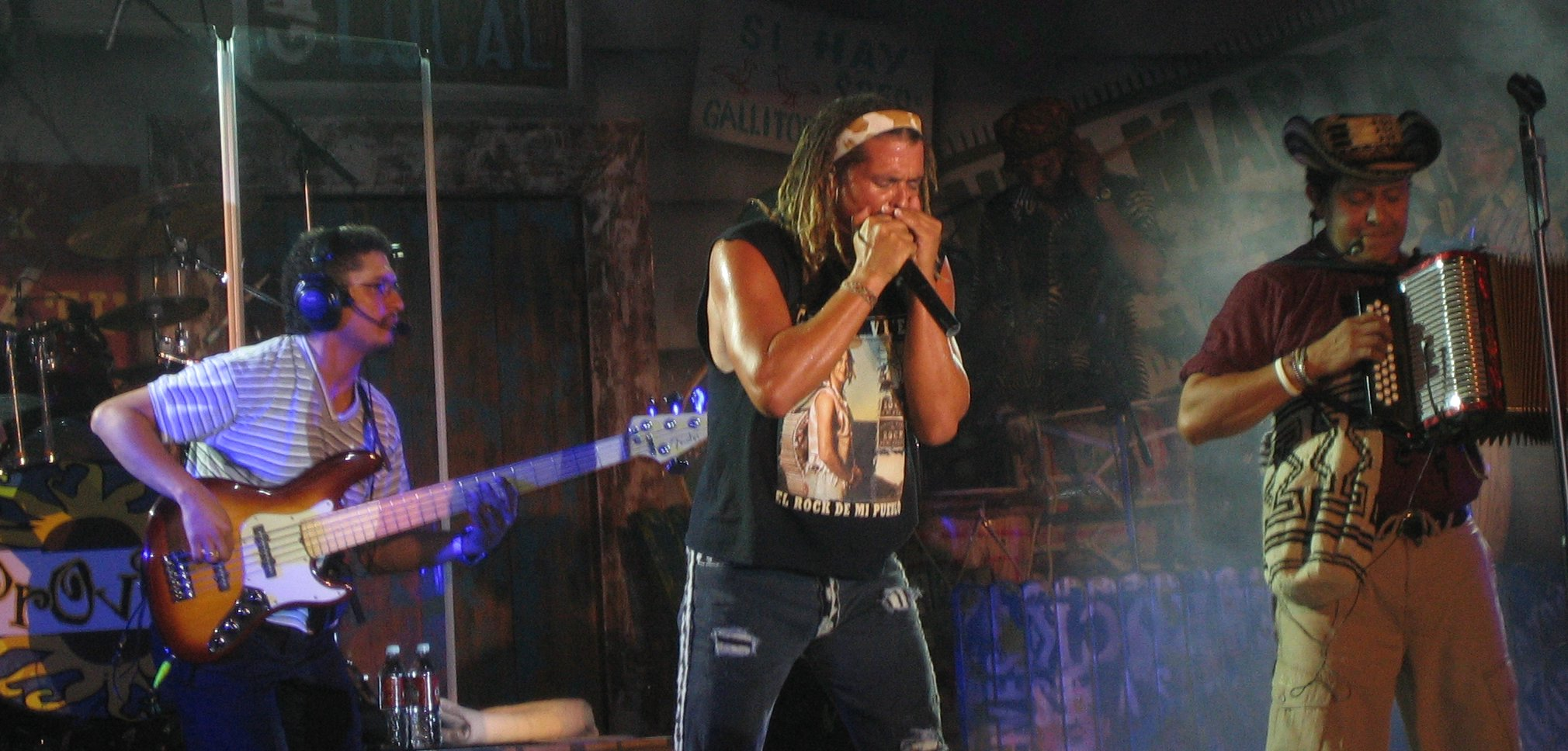 Carlos Vives playing the harmonica